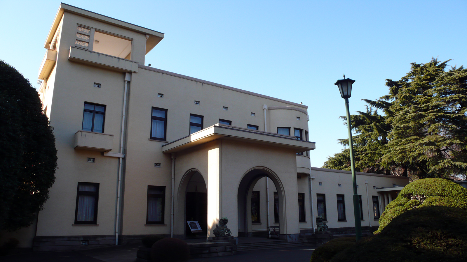 Tokyo Metropolitan Teien Art Museum (The Prince Asaka Residence)